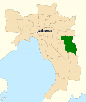 This image incorporates data that is: © Commonwealth of Australia (Australian Electoral Commission) 2009 Division of Aston 2010